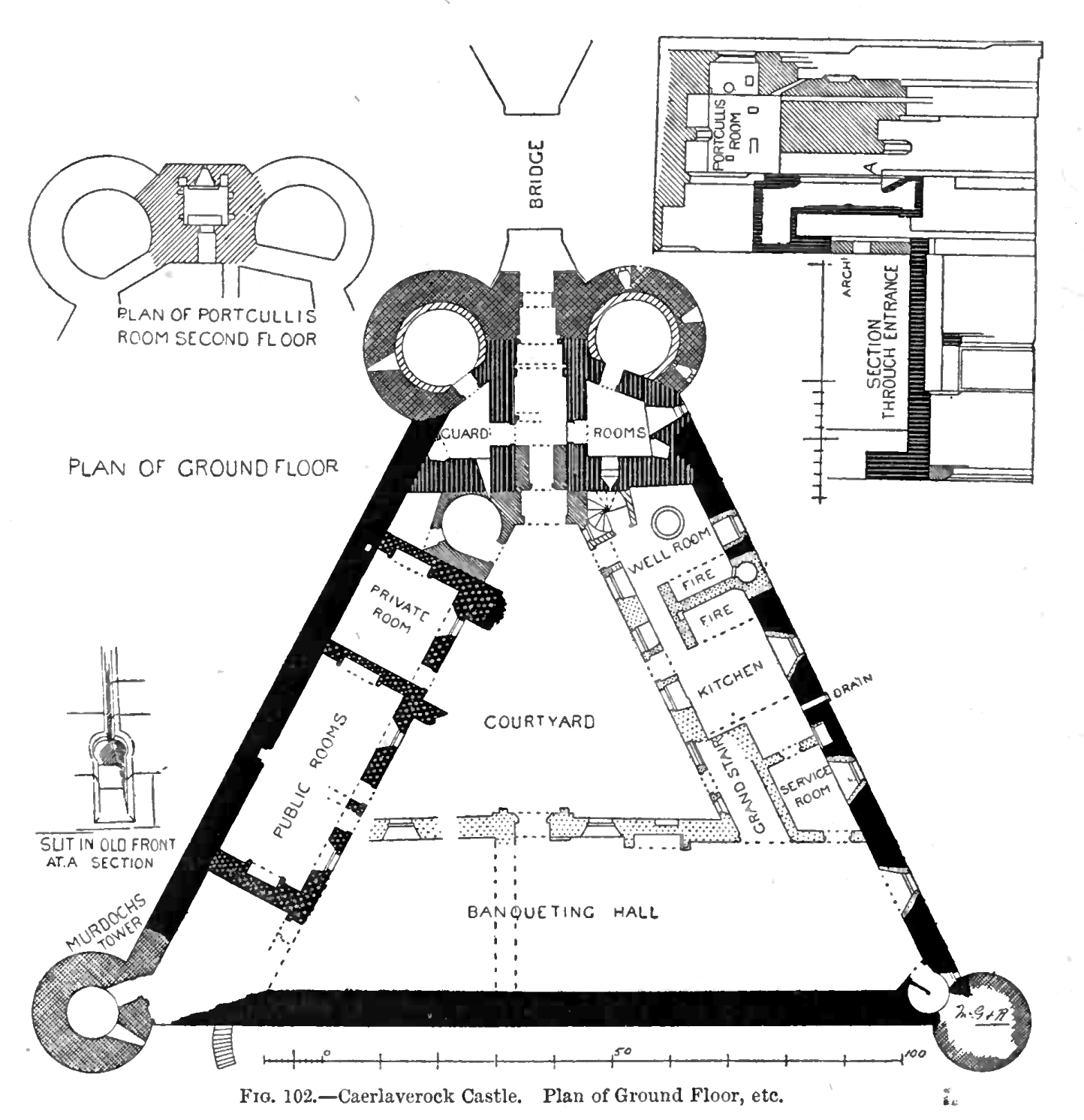 Caerlaverock Castle, Scotland.